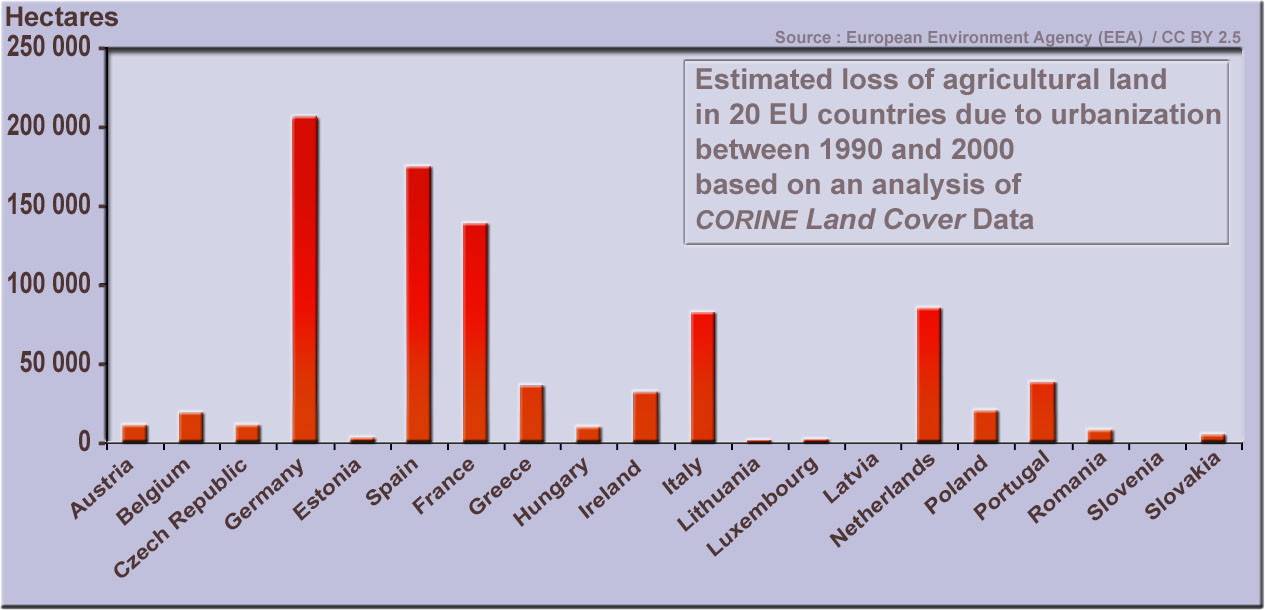 "Losses of agricultural areas to urbanisation" ; Graph showing estimated loss of agricultural land in 20 EU countries due to urbanization between 1990 and 2000 based on an analysis of CORINE Land Cover Data source : EEA, (Chart / CC-by-2.5) Losses of agricultural areas to urbanisation, retreived 2011-10-21